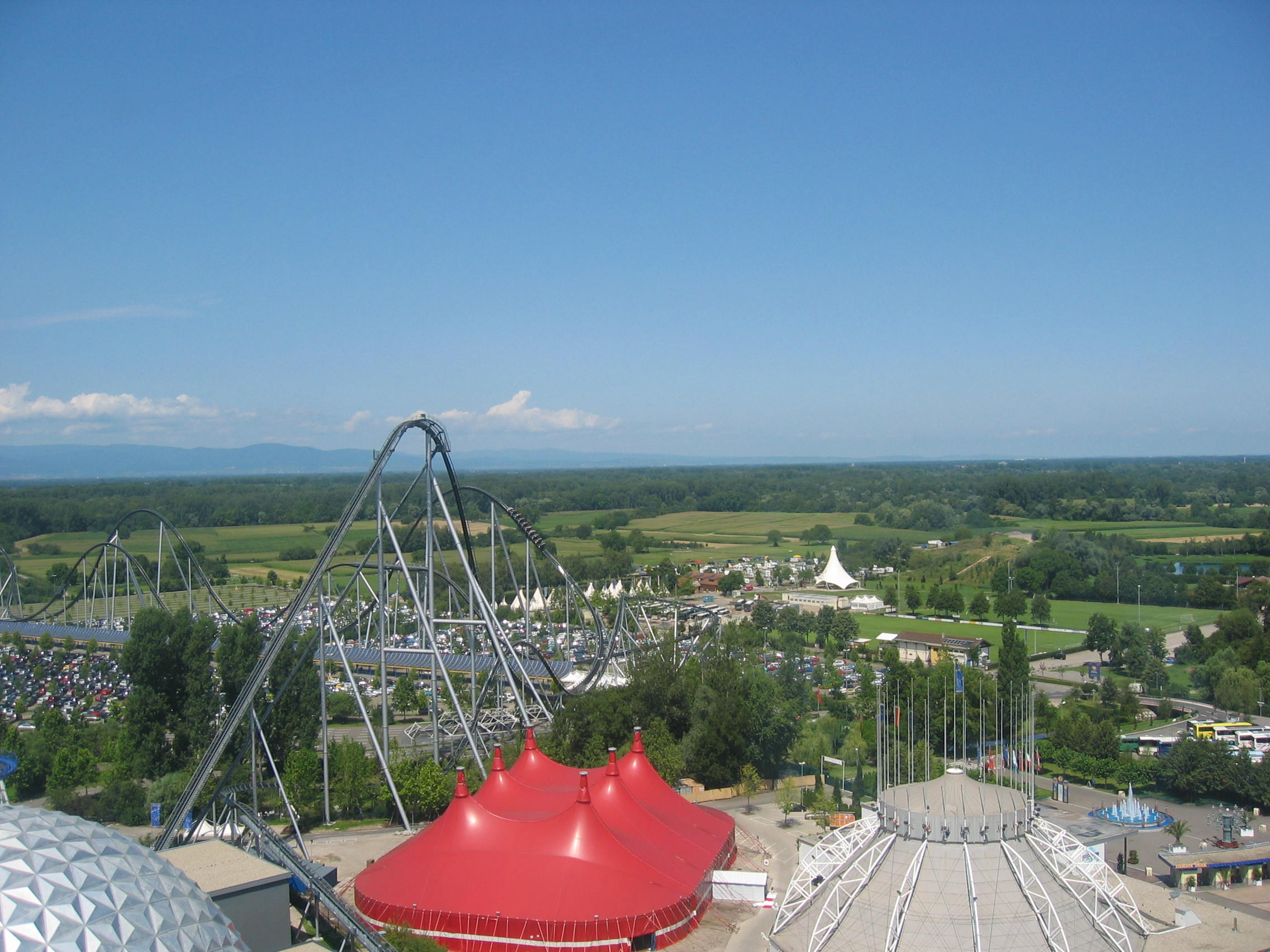 Europa-Park in Rust, Germany. View from Euro-Tower over Park. SilverStar (Europe's biggest Rollercoaster (Height: 73m) in the background).